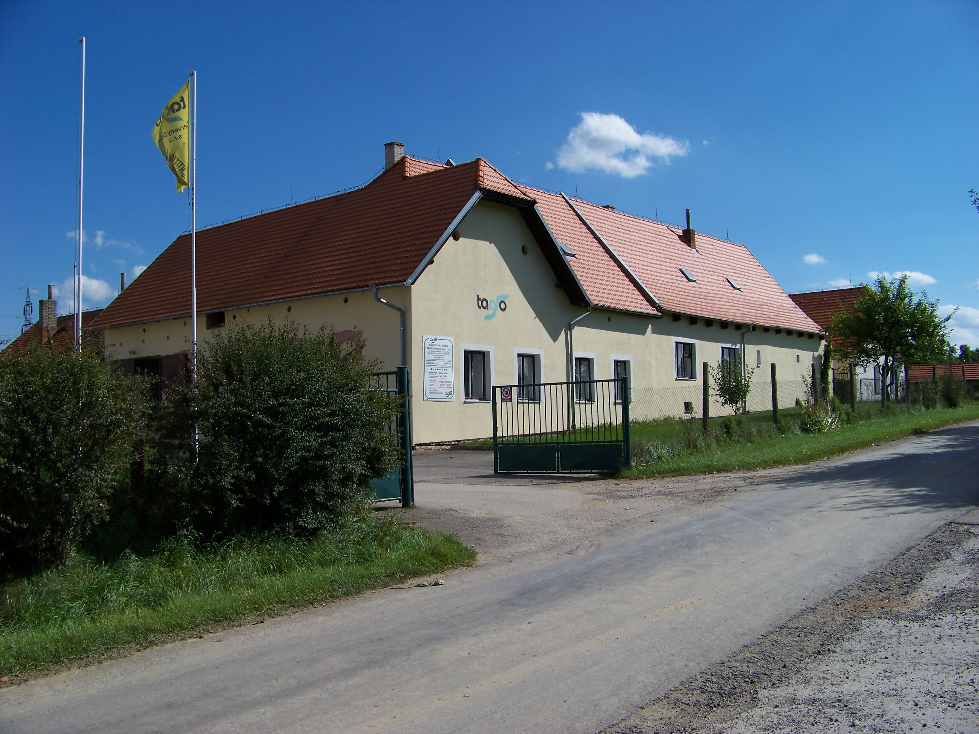 Sezimovo Ústí, Tábor District, South Bohemian Region, the Czech Republic. Červený Dvůr. - OpenStreetMap(Info)